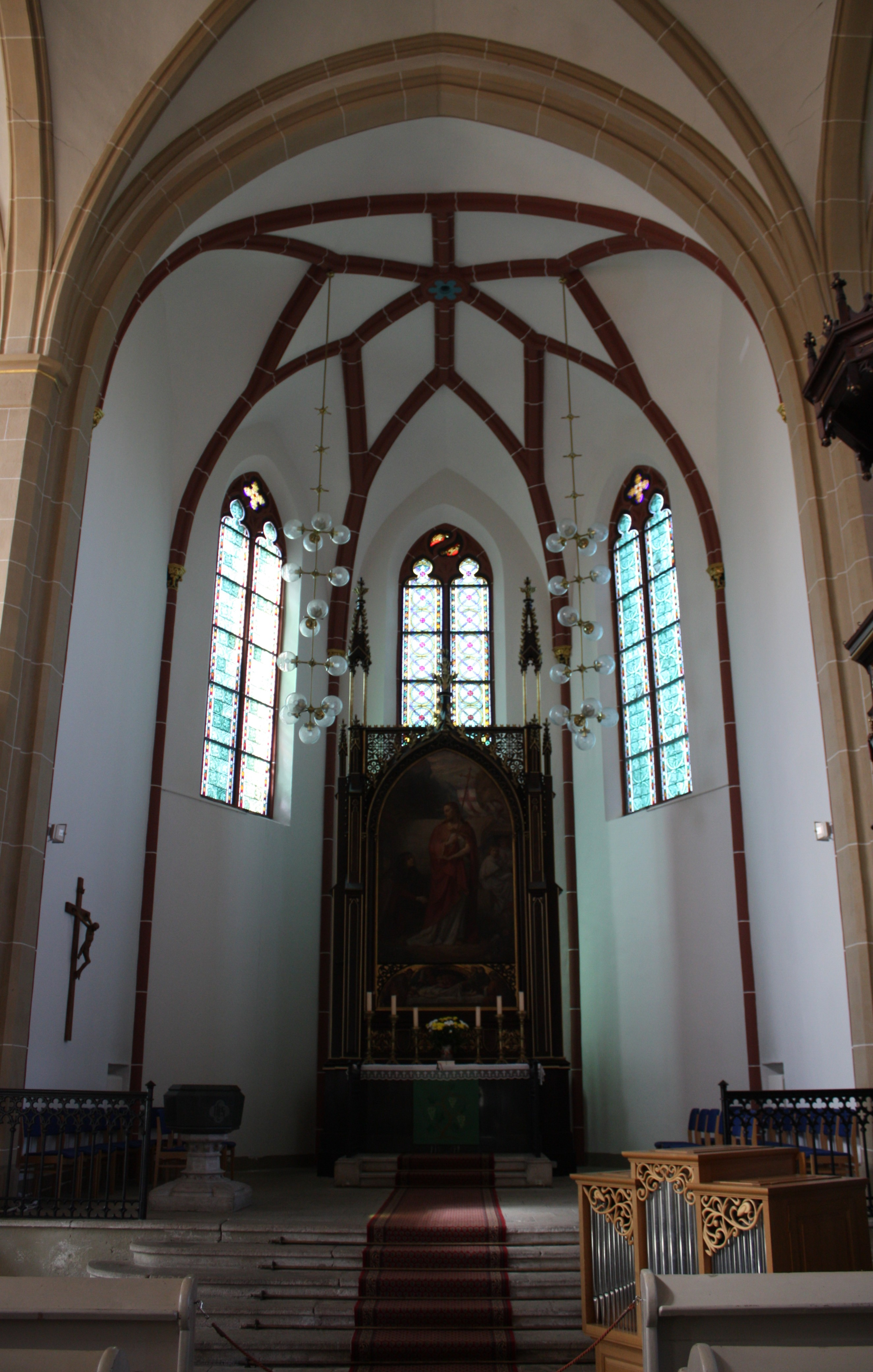 Martin Luther Church Oberwiesenthal, presbytery.